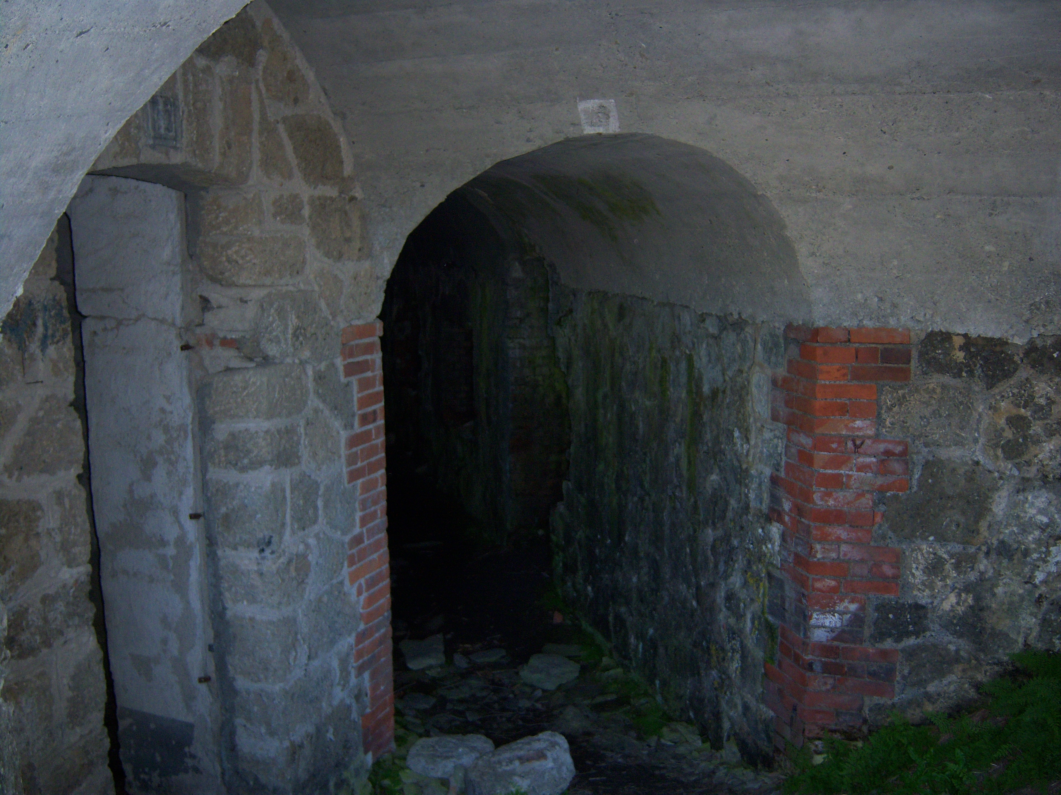 Interior view of the Champlas Séguin's fort